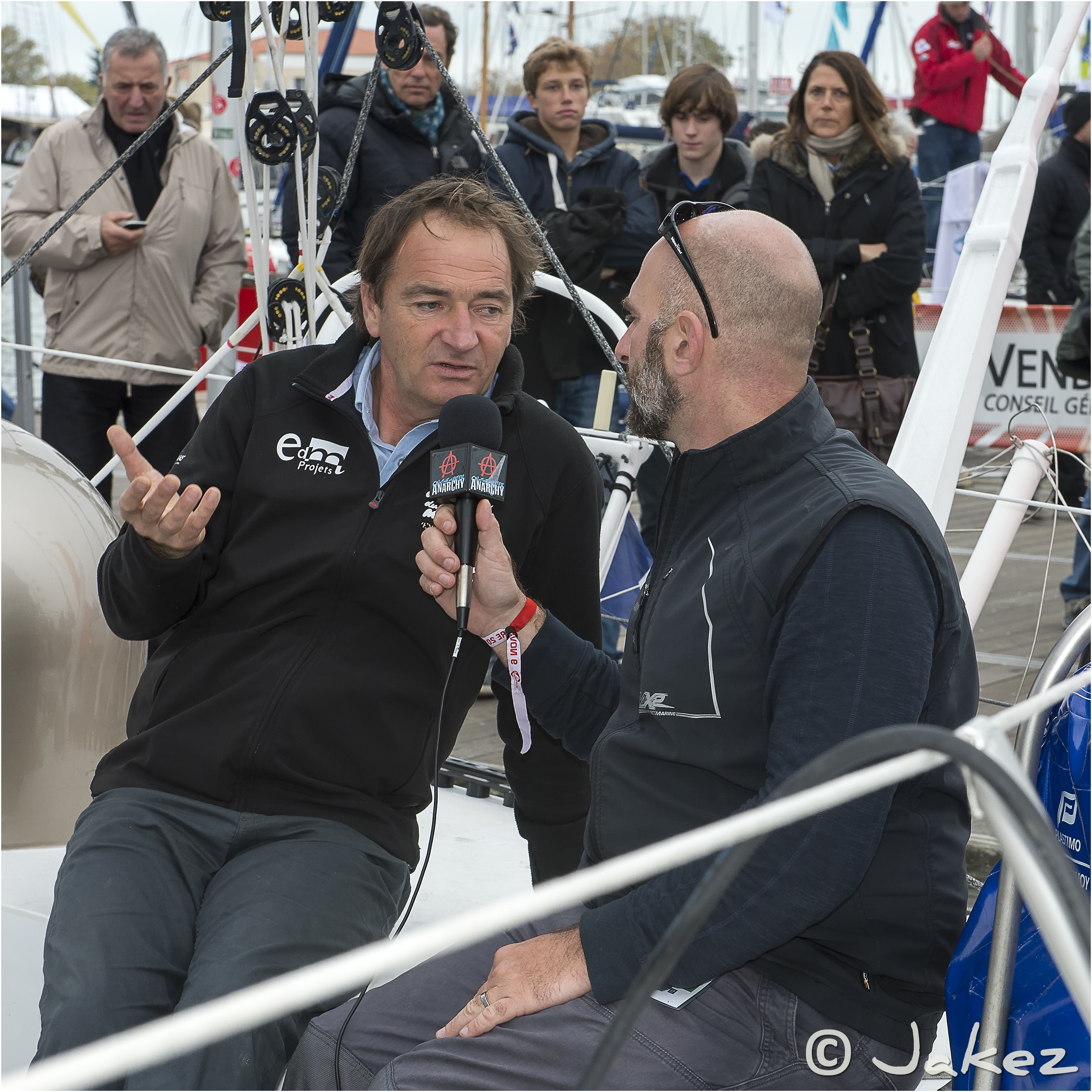 Bertrand de Broc before the start of the Vendée Globe 2012-2013 in Les Sables-d'Olonne